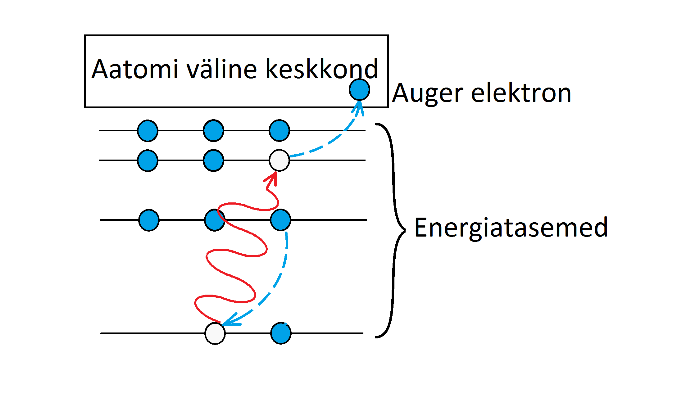 Absorption of an x-ray, electron recombination and photon reabsorption, generating an Auger electron